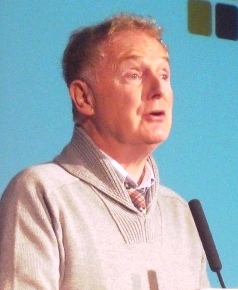 Punk icon and agent provocateur Malcolm McLaren goes off on his own learning journey.